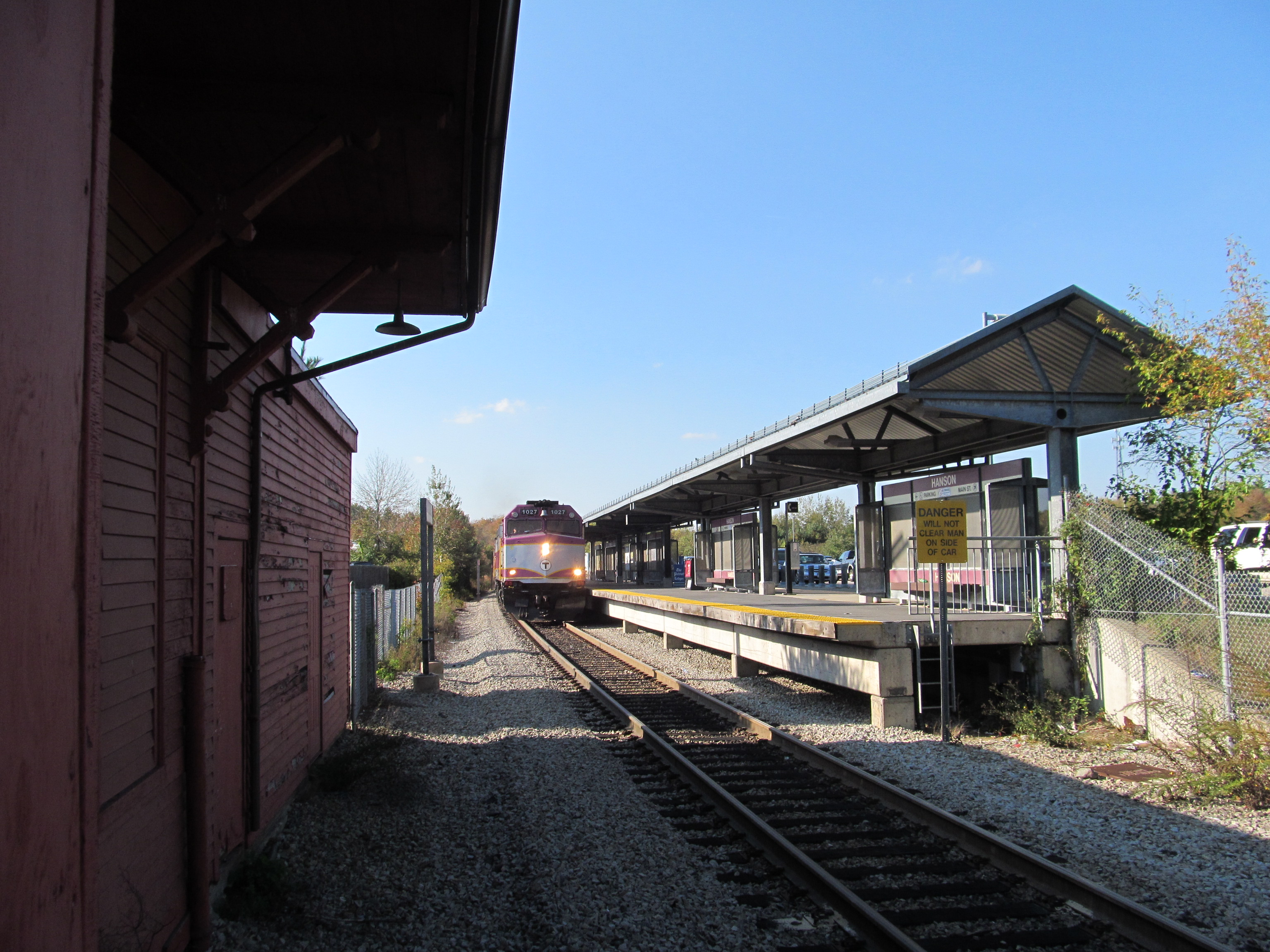 An MBTA Commuter Rail train at Hanson station in October 2012. The former South Hanson station building is at left.